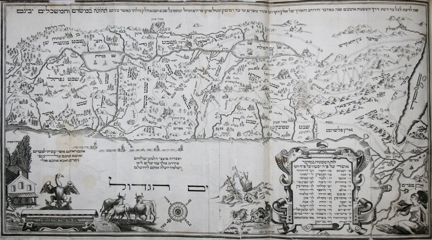 1695 Eretz Israel map in Amsterdam Haggada by Abraham Bar-Jacob